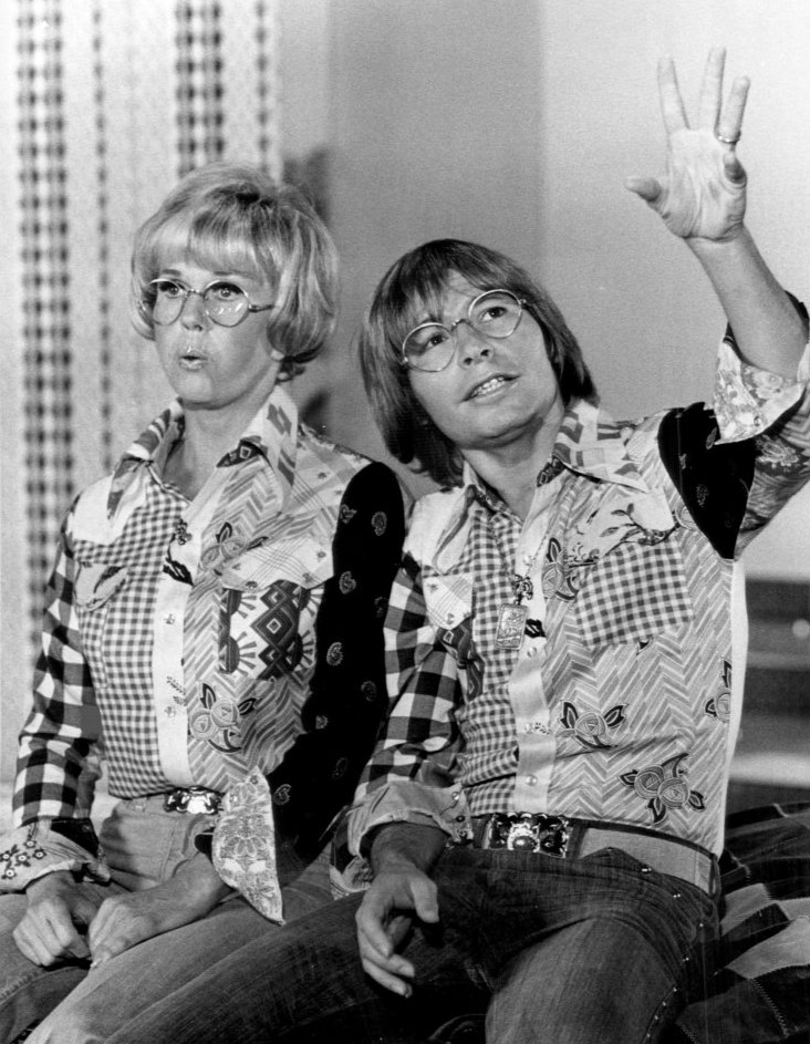 Photo of Doris Day and John Denver from a 1975 TV special Doris Day Today (CBS, Feb. 19, 1975)